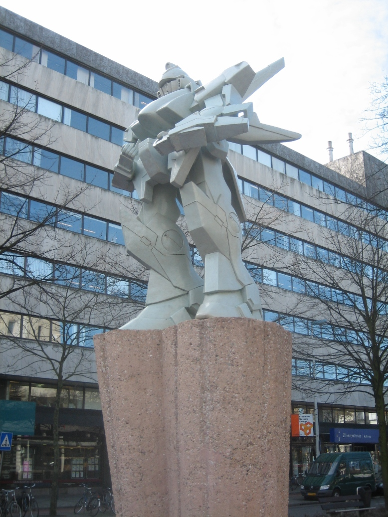 Sculpture "Guard" by Hans van Bentem in Rotterdam/The Netherlands